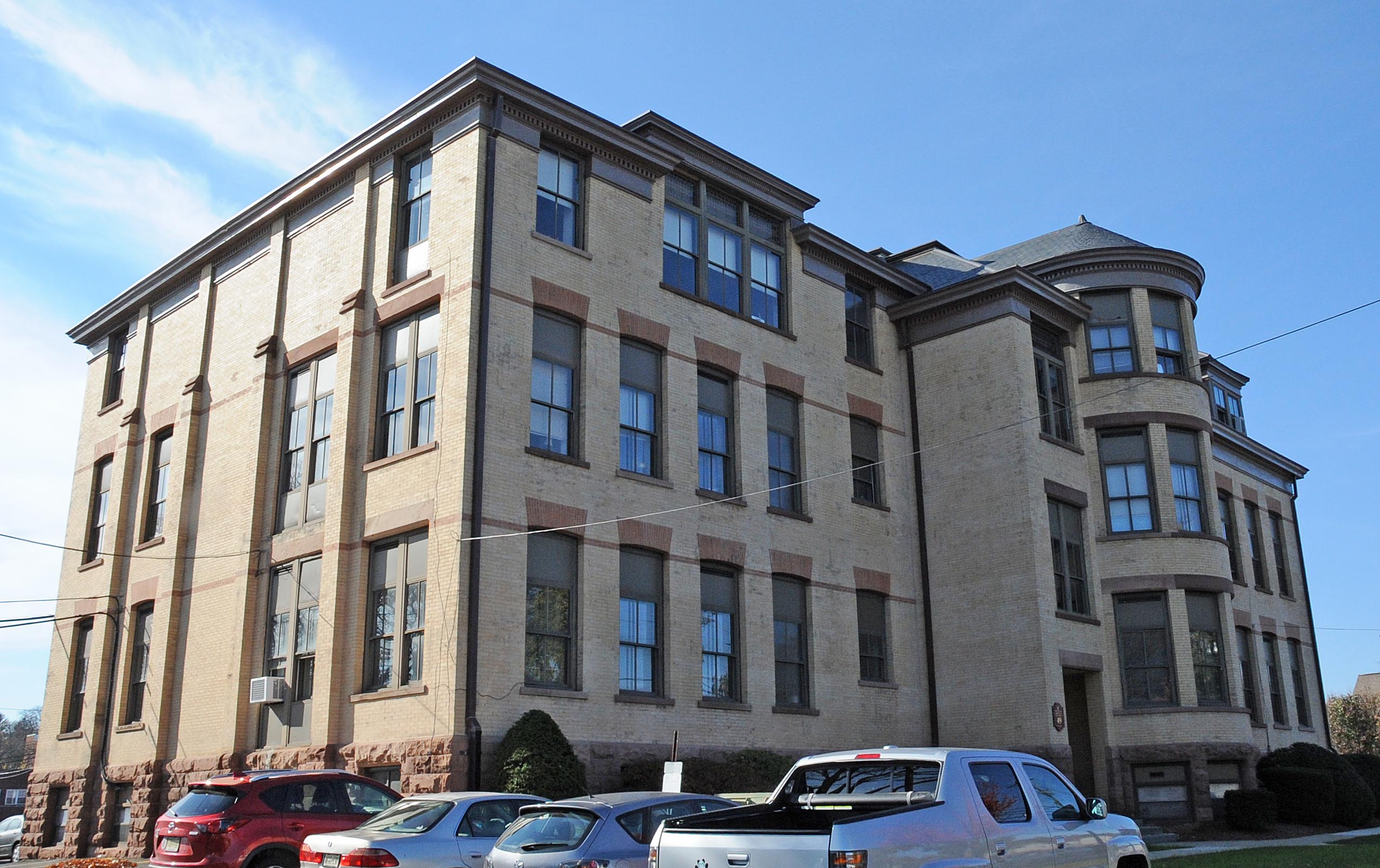 BUILT IN 1894 TO HOUSE ALL THE CHILDREN OF RIDGEWOOD AND VICINITY. ONE OF NEW JERSEY’S FIRST KINDERGARTENS WAS HOUSED HERE. ROMANESQUE ARCHITECTURE